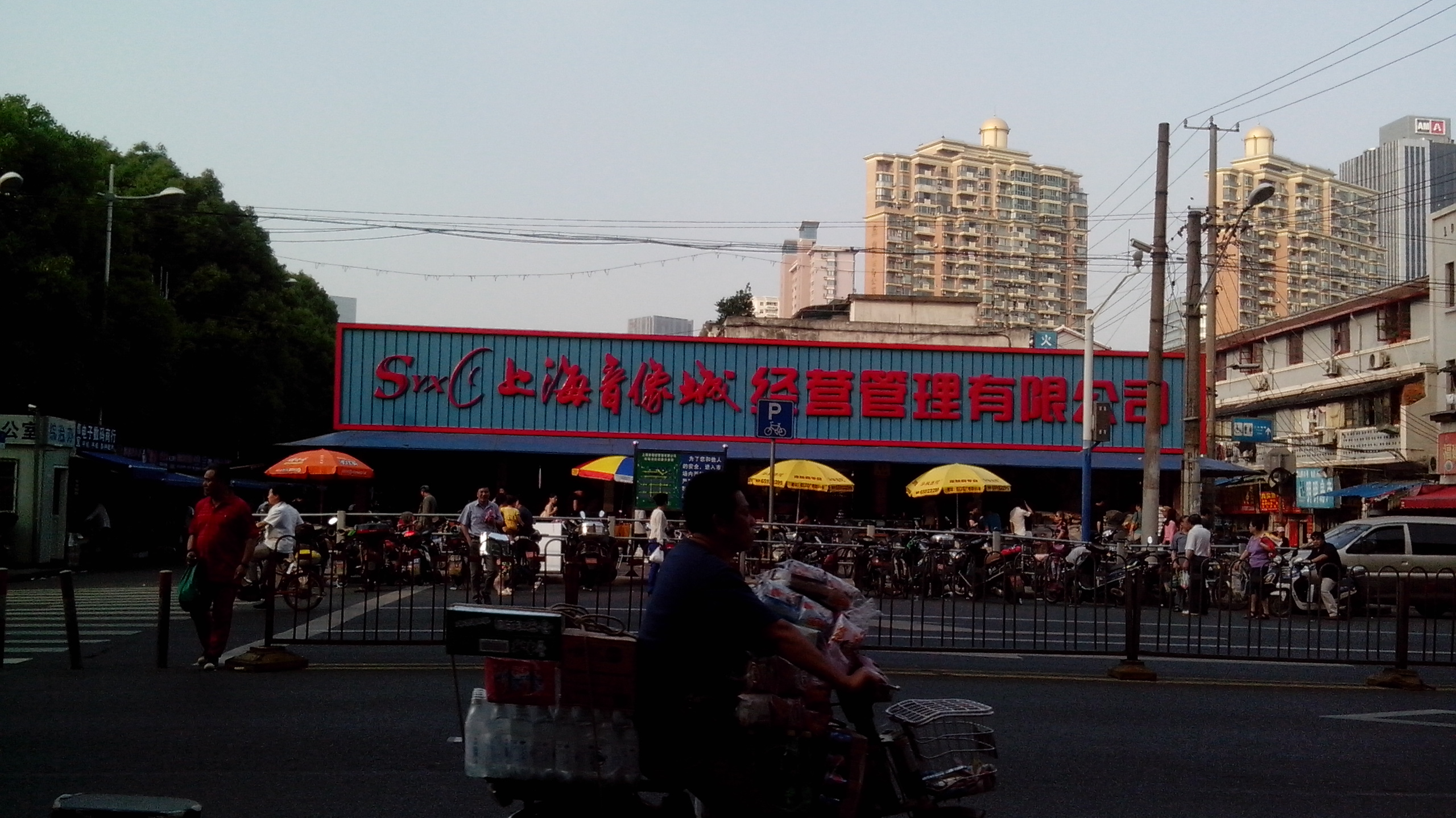 a secend-hand digital market in qiujiang Rd. shanghai